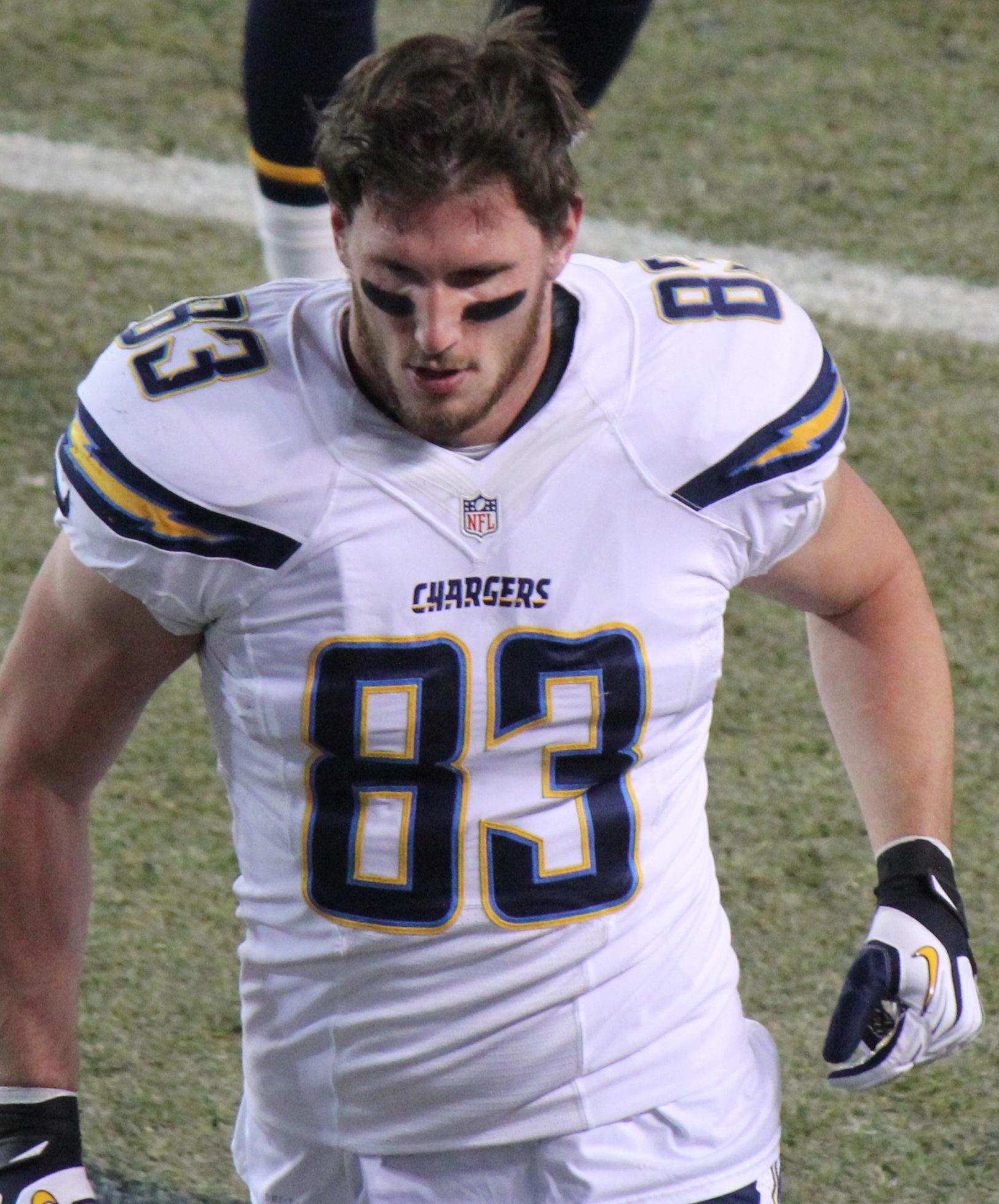 John Phillips, a player on the National Football League.